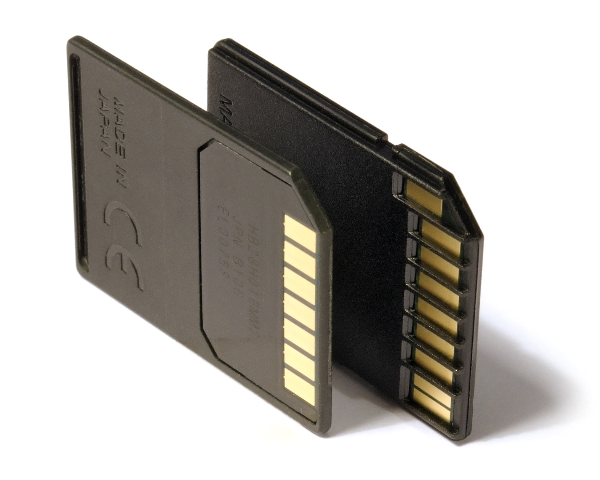 Underside of an MMC card (left) and an SD (SD-HC) card (right) showing the differences. (The SD card is a SanDisk 8 GB. The MMC is a Canon 16 MB. (Not a typo; 16 megabytes was tiny even by 2007 standards when I got it bundled with a camera).